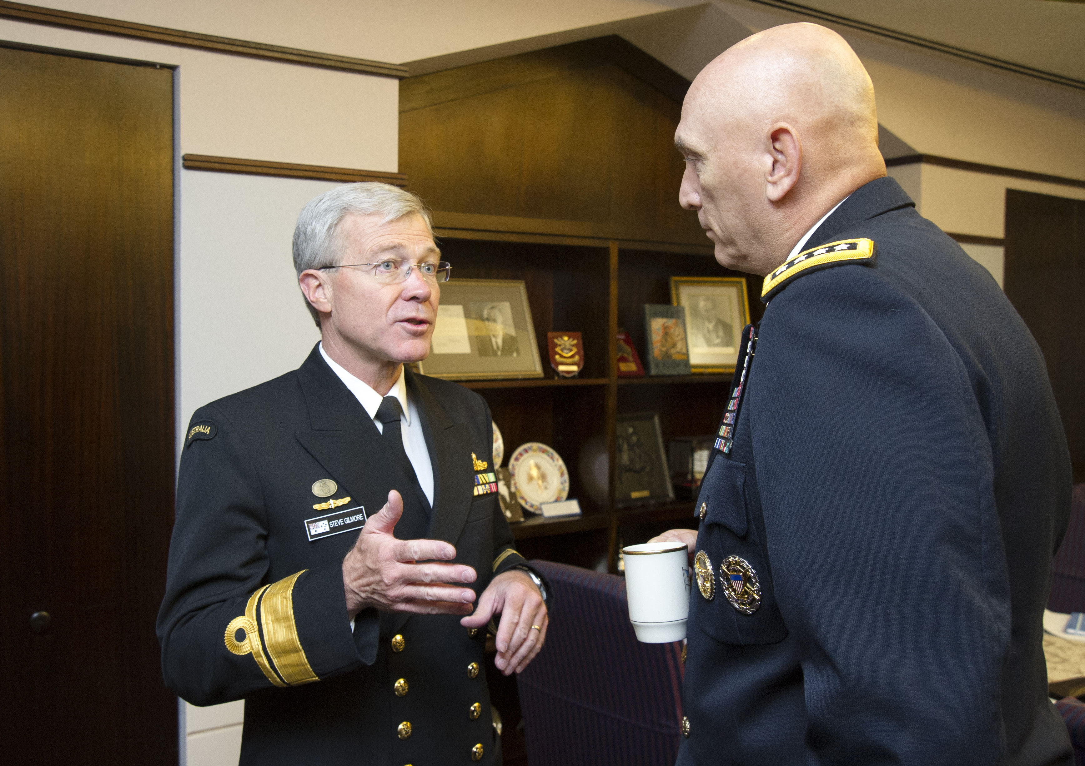 General Raymond Odierno with Australian admiral Steve Gilmore